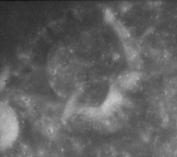 Hargreaves, on the moon. Camera Altitude is 121 km, Sun Elevation is 59°.